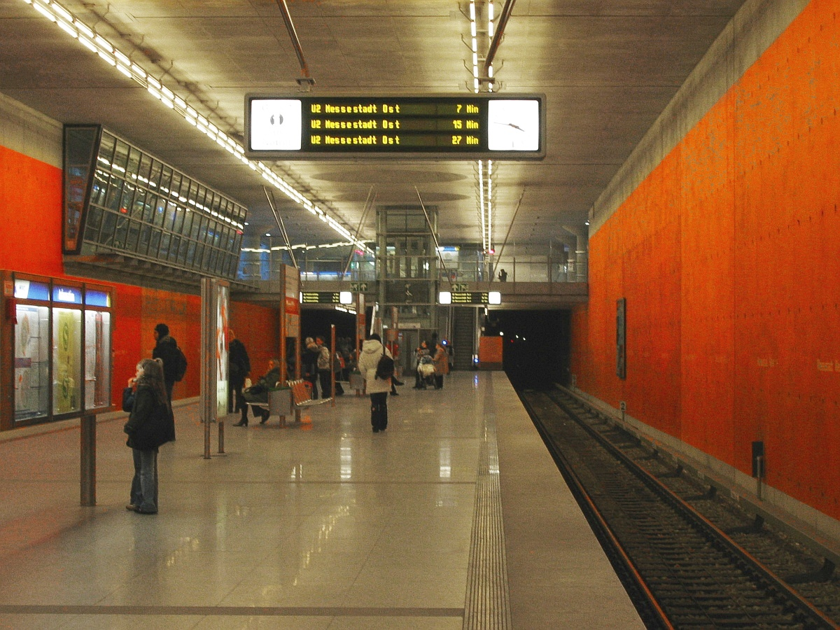 Munich subway station Messestadt West (U2)